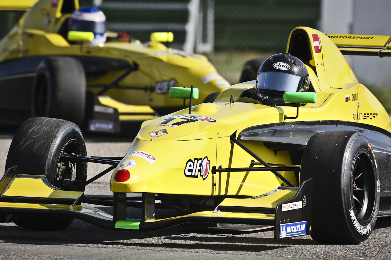 Alexey Chuklin in Hockenheim (Northern European Cup 2011)